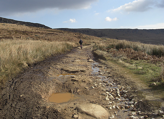 Long Causeway, Stanage Edge Long Causeway is thought to be a Roman road that linked the forts at Navio (Brough) and Melandra (Glossop). It is now one of the top ten classic mountain bike ascents in the Peak District.